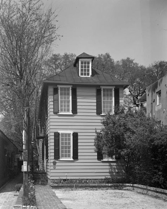 Thomas Elfe house after restoration in 1977 - 1979. House has been moved south 30 feet to the back of the lot.